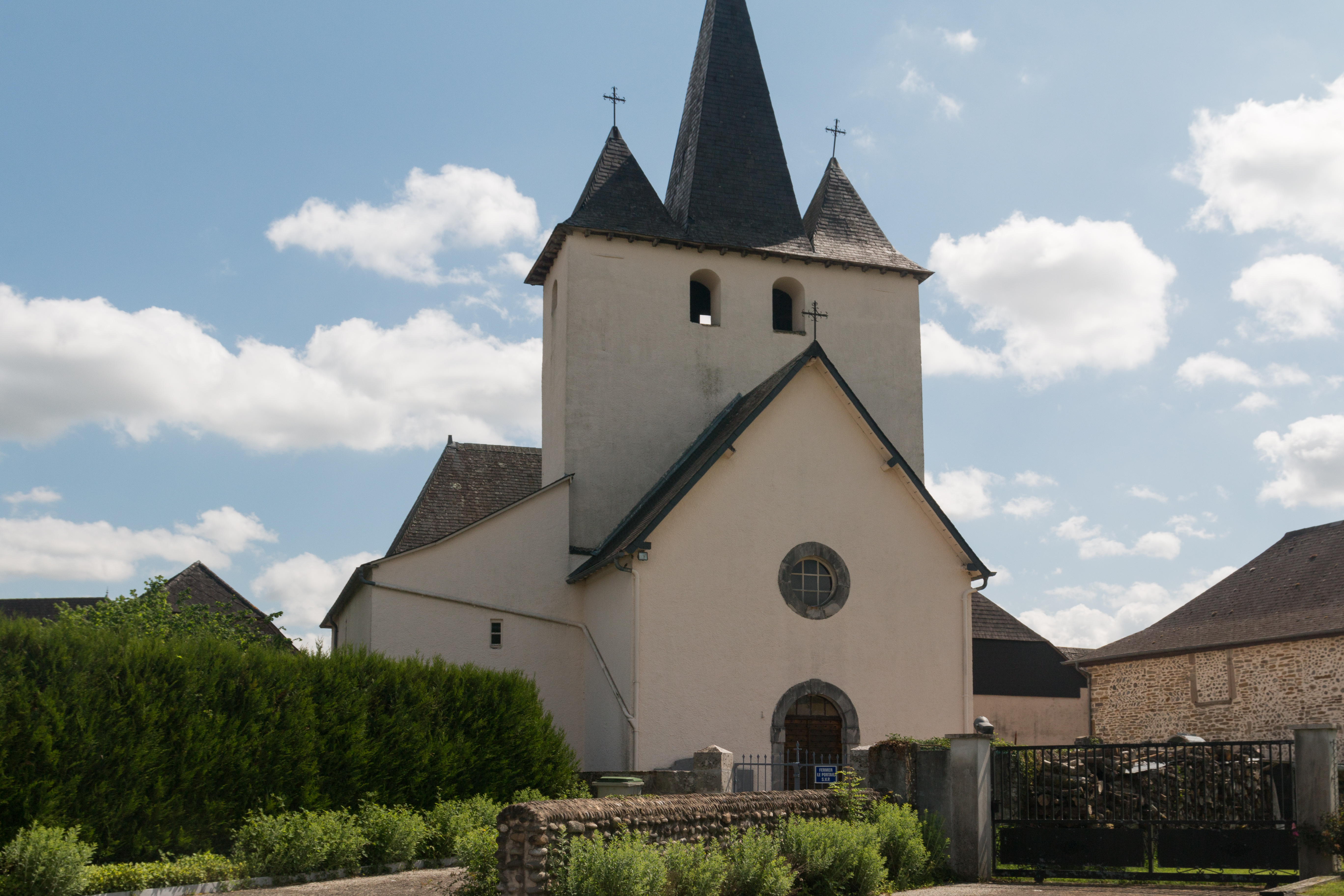 Church of Geüs-d'Oloron.